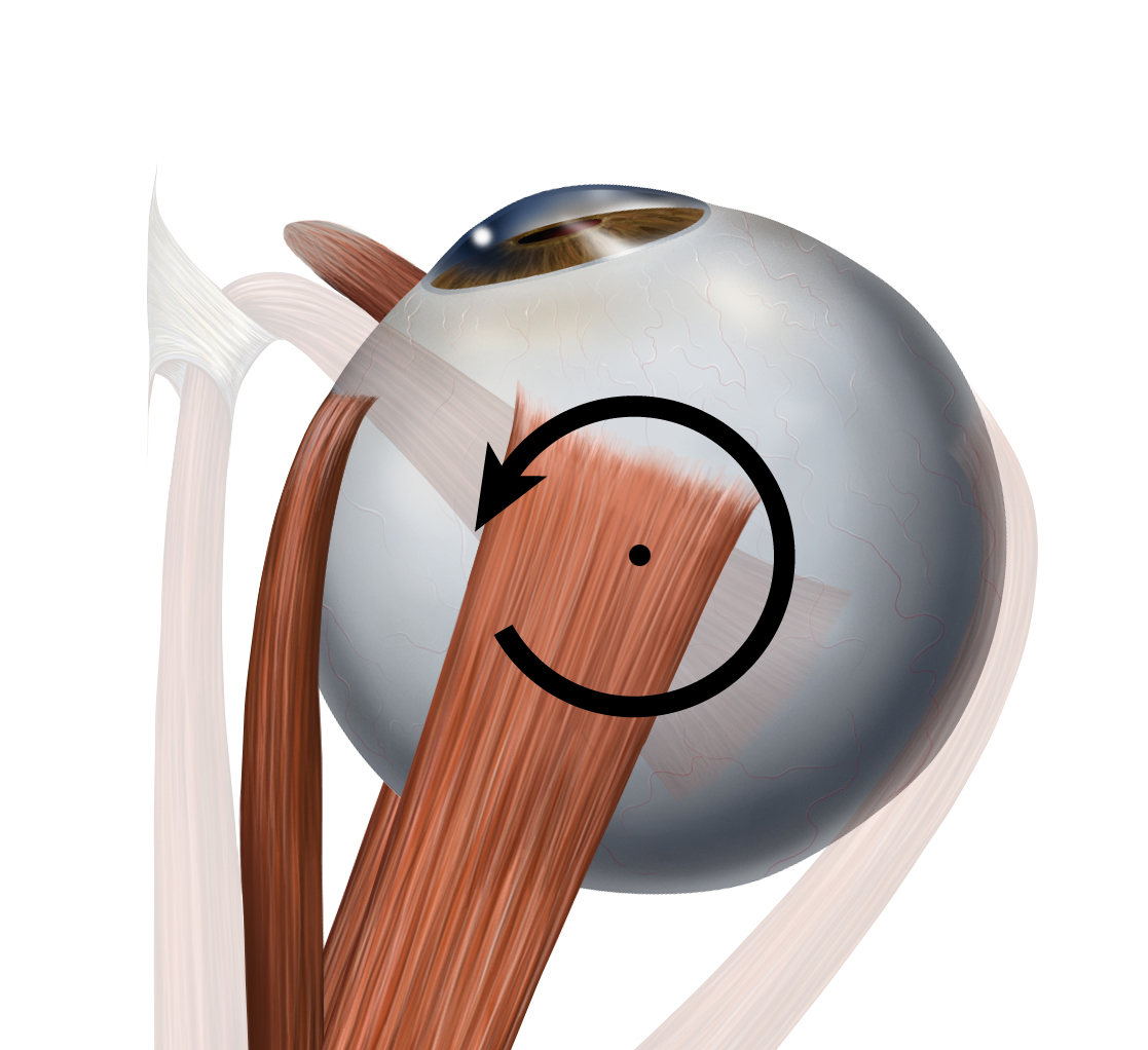 Eye movements adductors